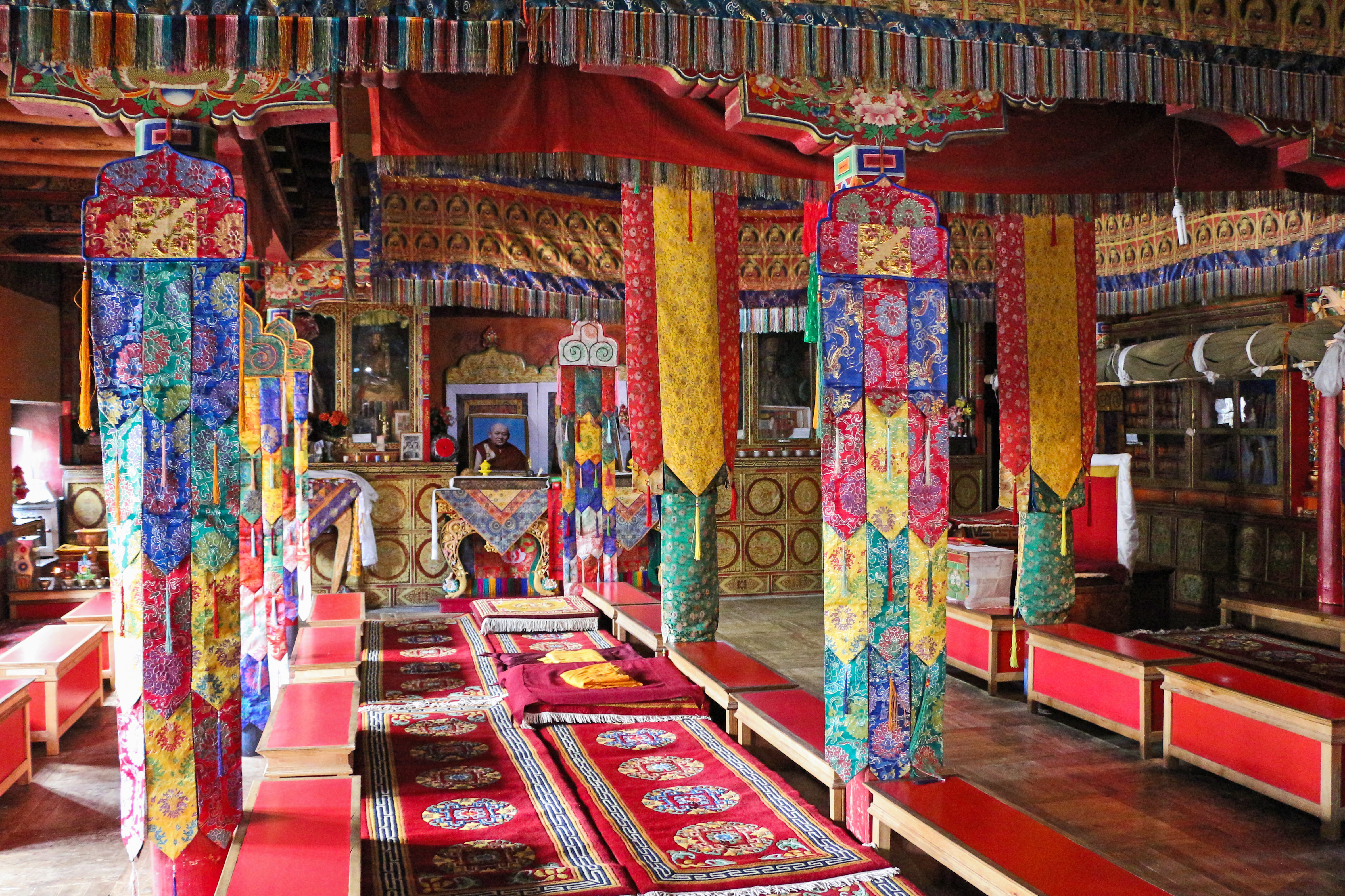 Lamayuru Monastery, Ladakh, India